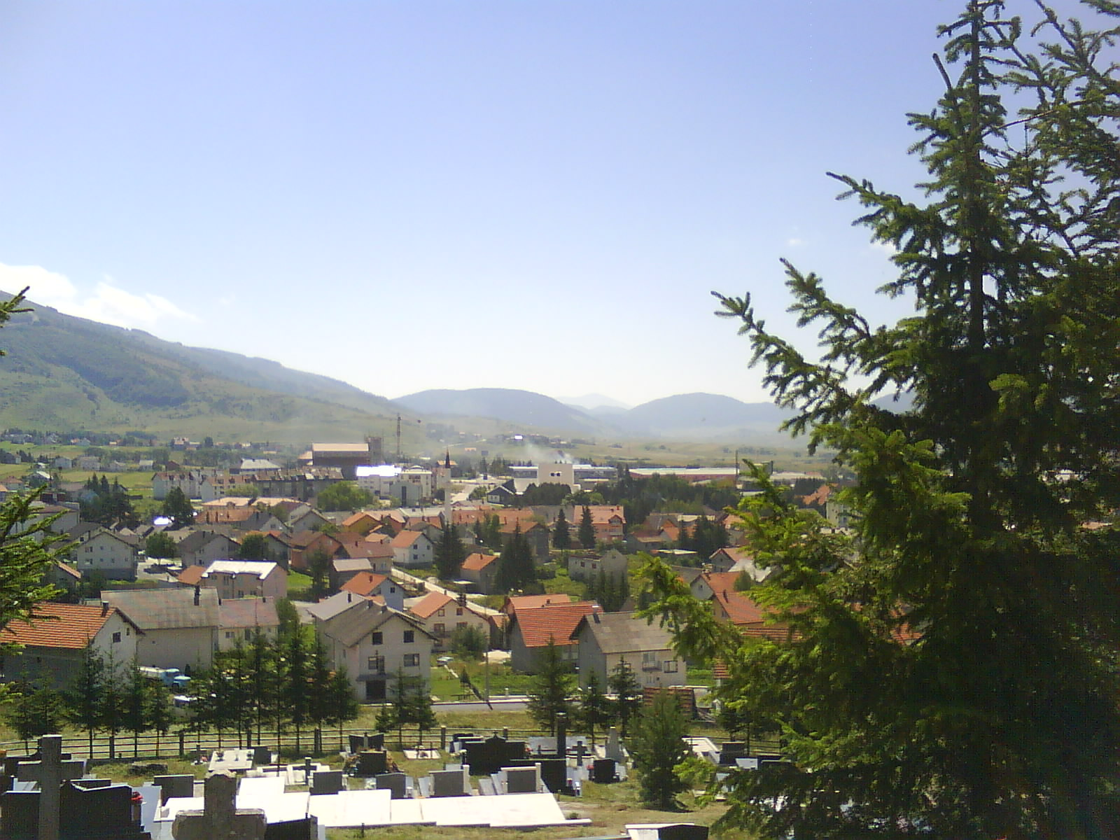 Roman Catholic cementery in Kupres }